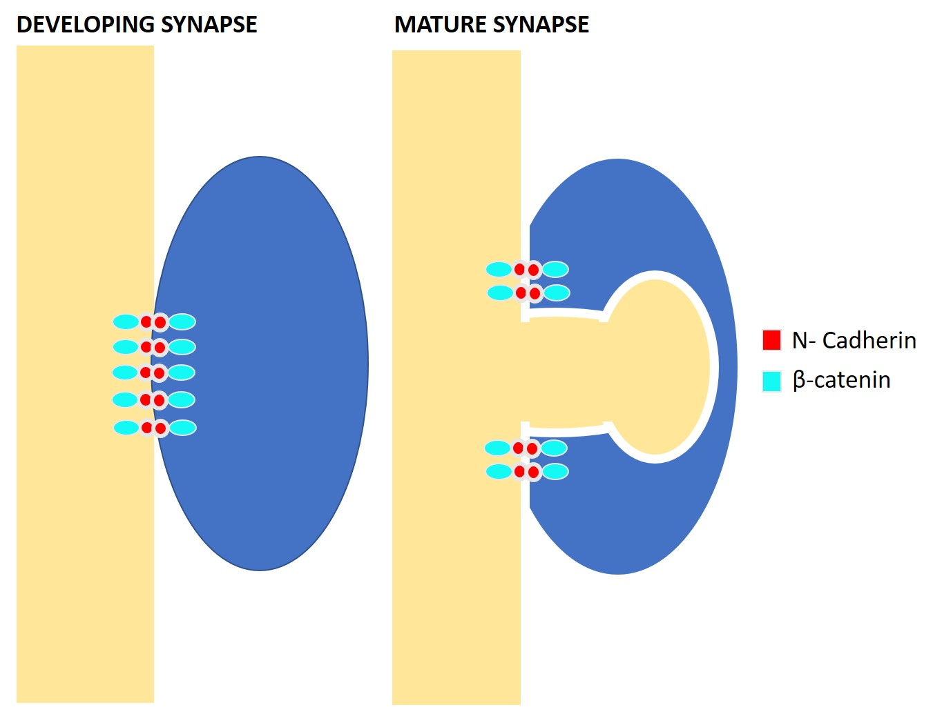 Temporal and spatial expression of N-cadherin complexes in the developing and mature synaptic connection